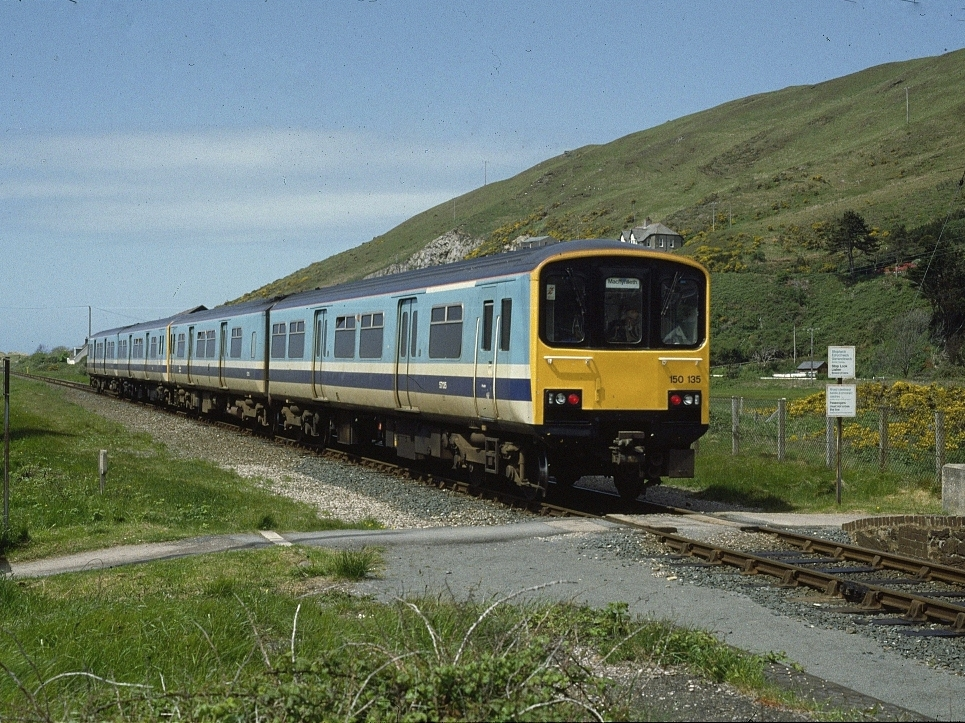 The British Rail Class 150 Sprinter diesel multiple-unit trains (DMUs) were built by BREL from 1984 to 1987. A total of 137 units were produced in three main subclasses, replacing many of the earlier first-generationHeritage DMUs. 150135 is part of the second batch of fifty units which were classified as Class 150/1 and numbered in the range 150101-150. Unlike the third batch 150/2, they did not have front-end gangway connections.